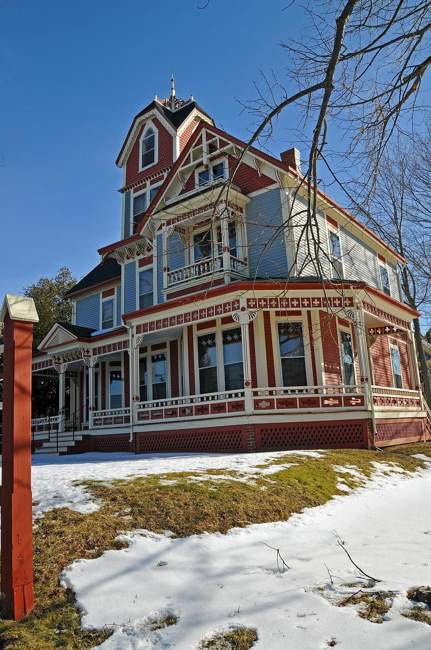 Shand House - Shand family built this ornate late-Victorian house in 1890-91, it was the latest thing. It had central heating, closets, electric lighting and even indoor plumbing. Windsor, Nova Scotia, Canada